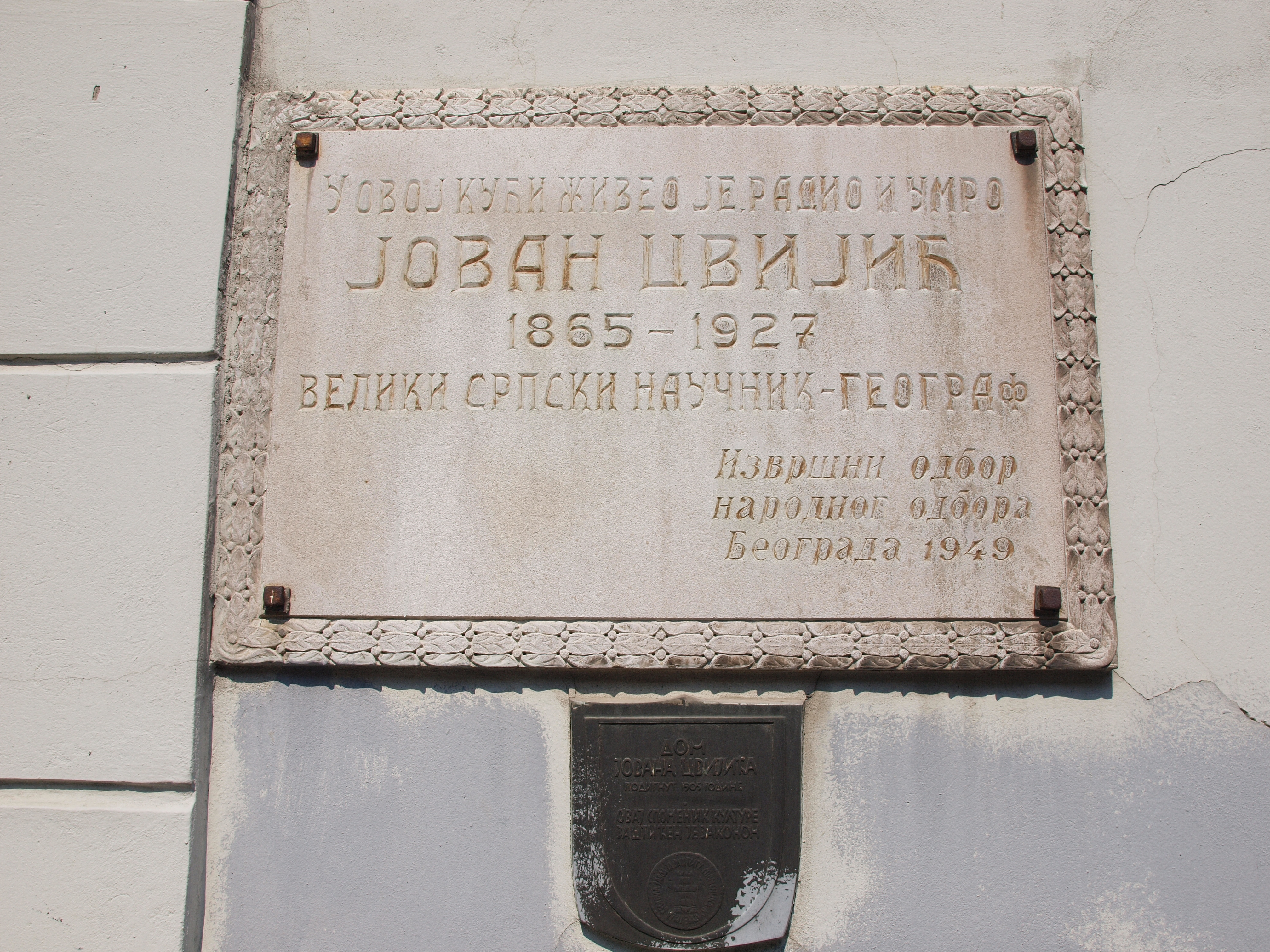 Muzej Jovana Cvijica Belgrade